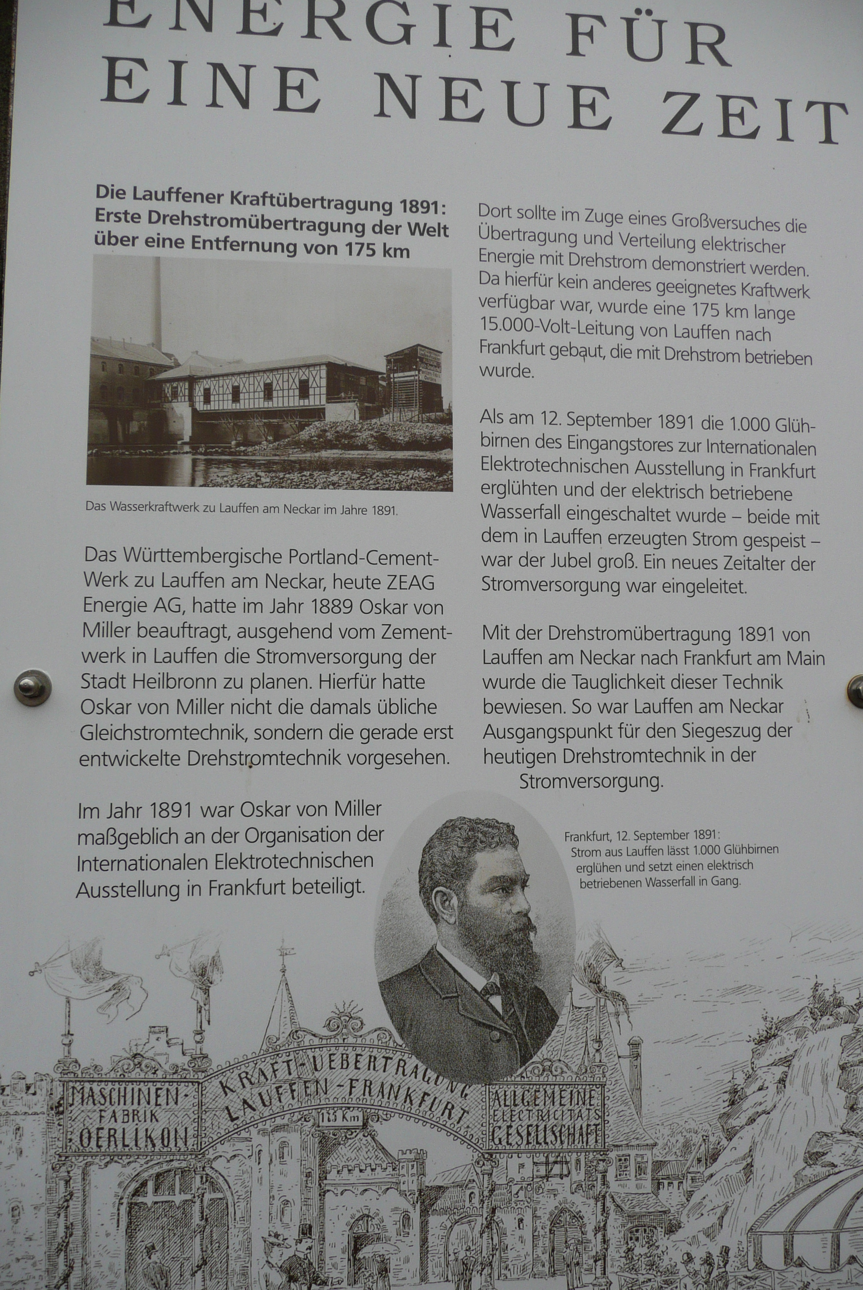 Explanation panel displayed by the Lauffen am Neckar commune in the castle, 2007. Subject is the power transmission line in 1891.